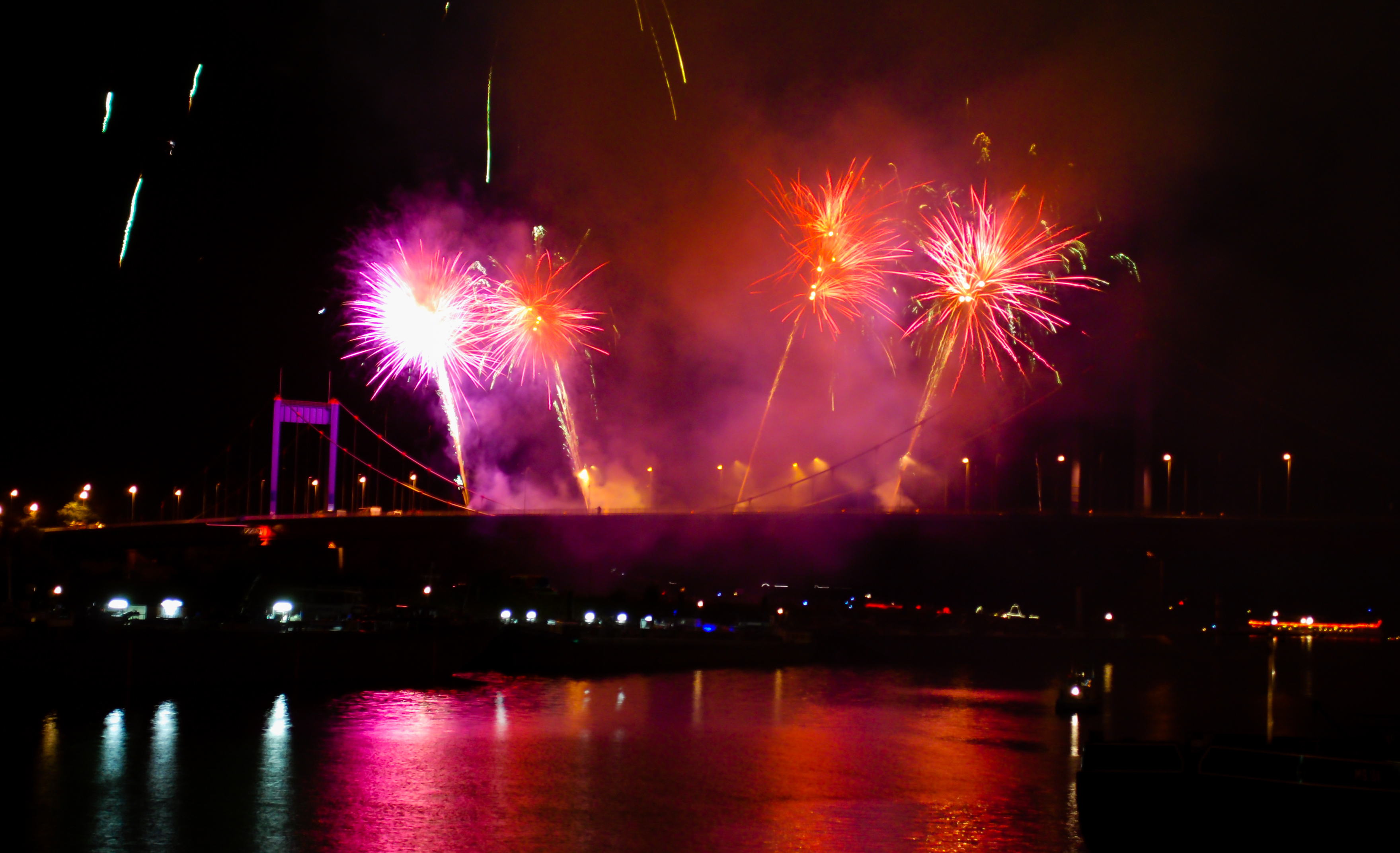 Harbour party "Ruhrort in Flammen"